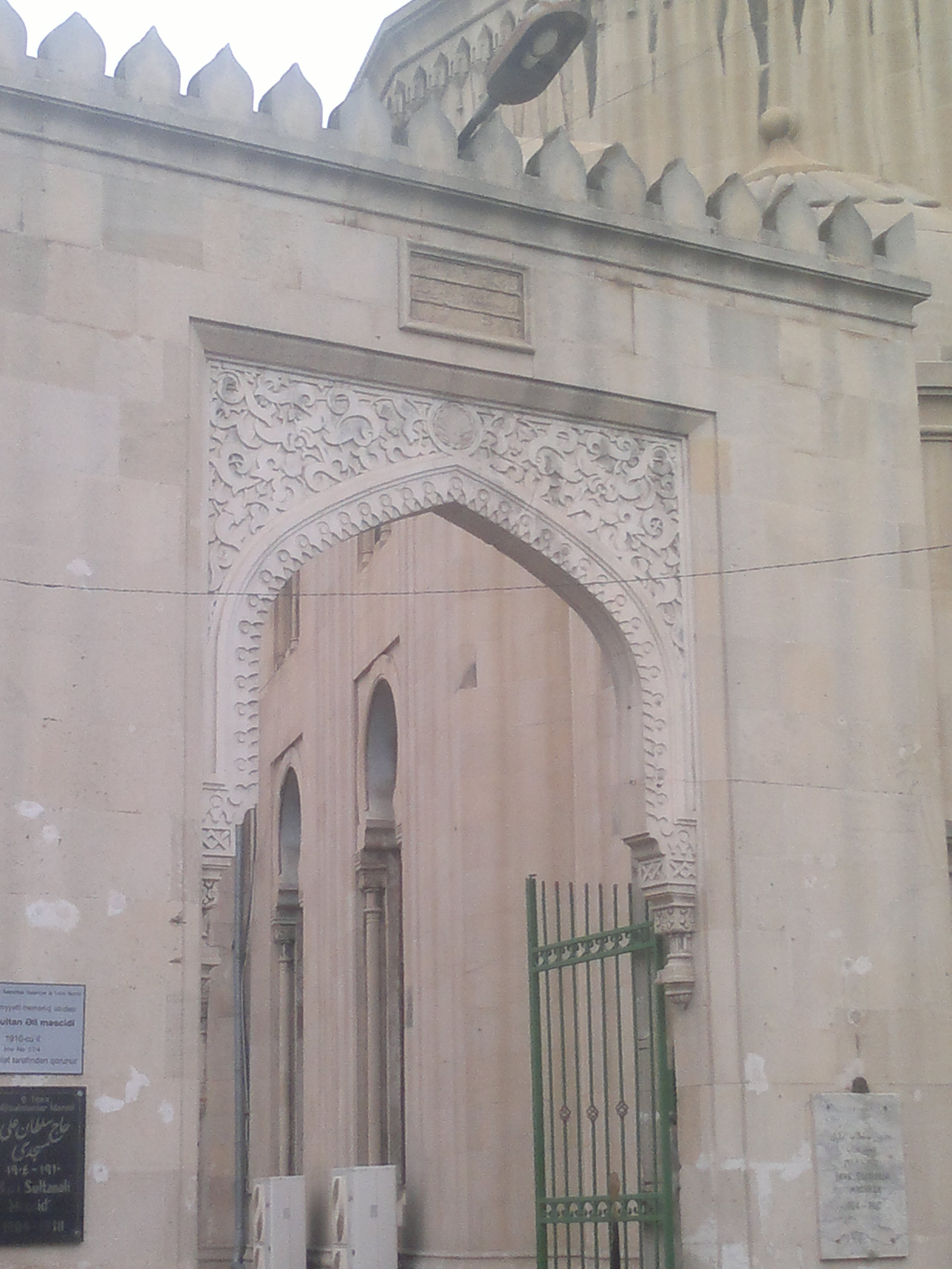 Haji Sultan Ali Mosque